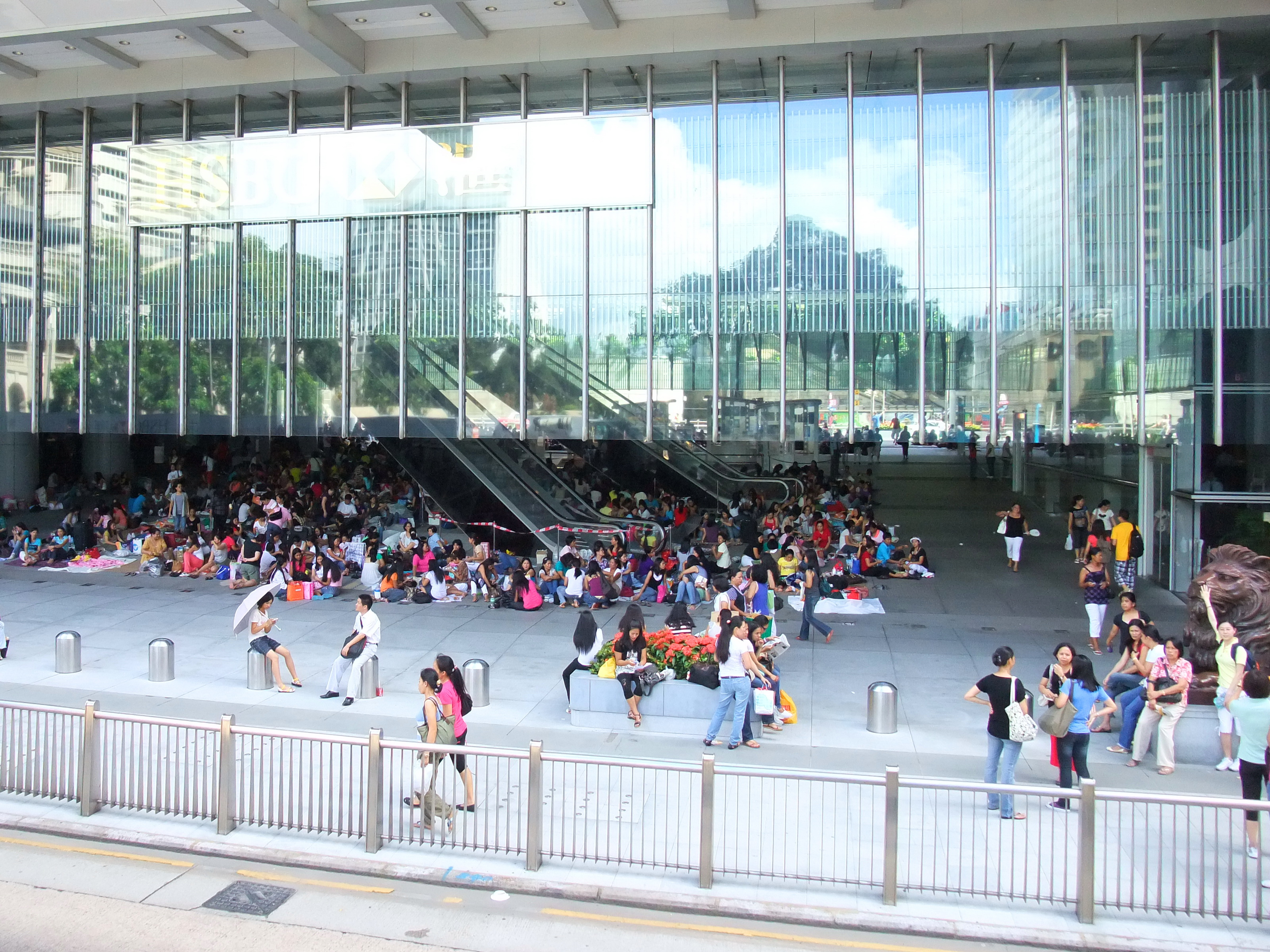 Foreign domestic helpers gathering around the HSBC Main Building in Central, Hong Kong.